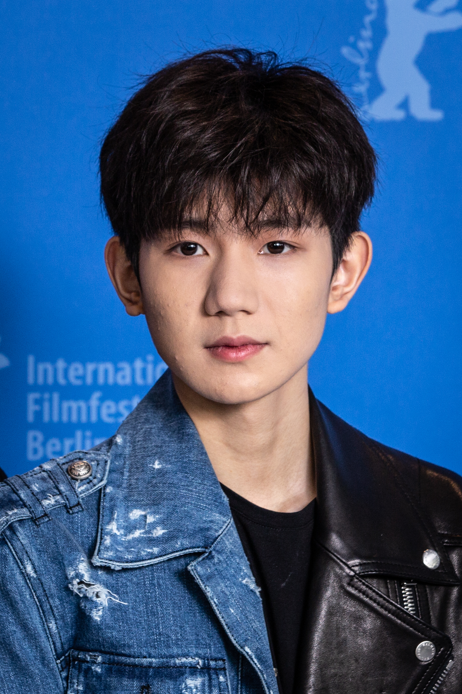 Actor Roy Wang at the Berlinale 2019